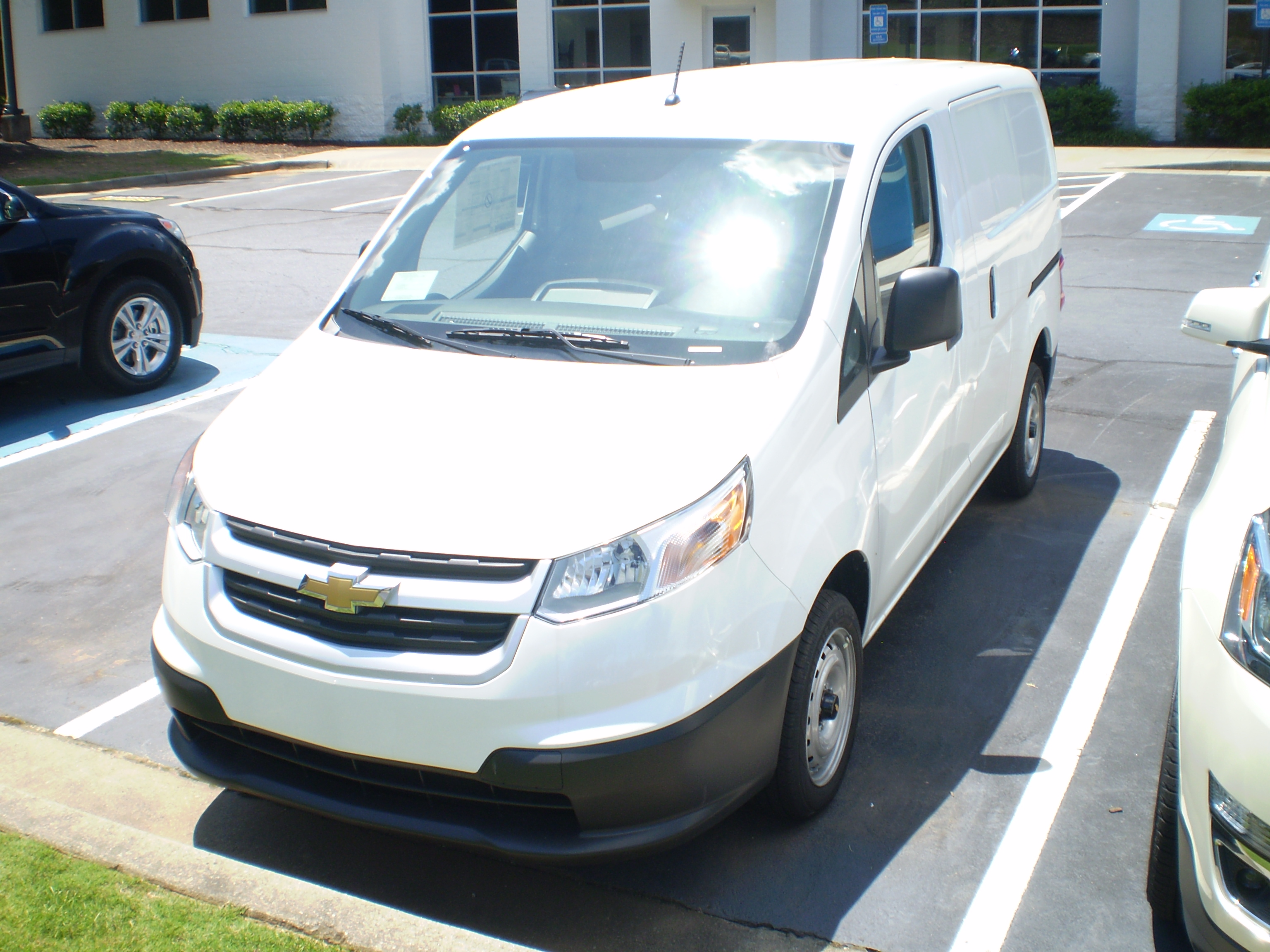 2015 Chevrolet City Express LS (Observe) Final Assembly Location: CIVAC-Jiutepec, Cuernavaca, Morelos, Mexico Verified by Monroney sticker.